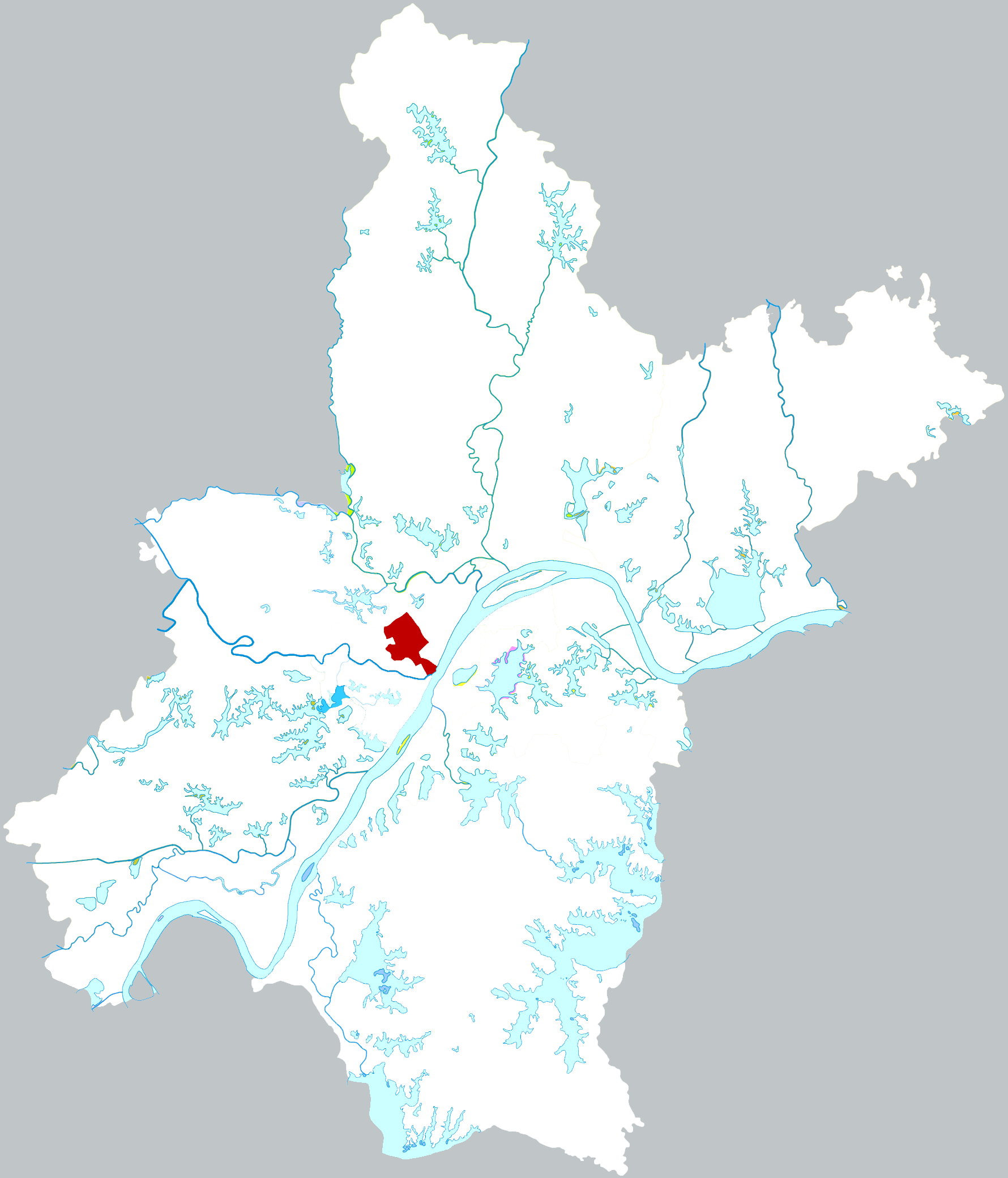 Location of Jianghan district in Wuhan city, China